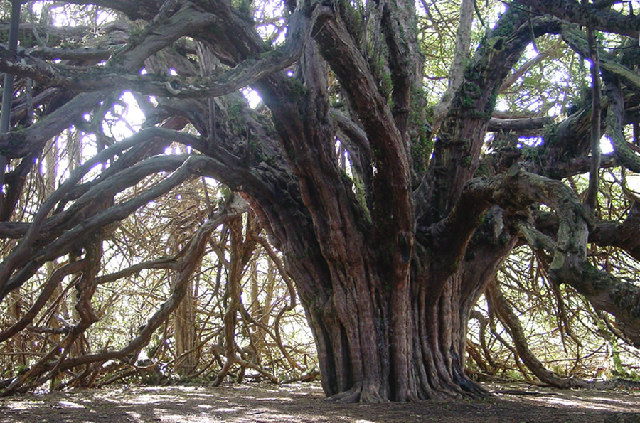 Ormiston Yew. One of Scotlands few ancient layering yews. John Knox is reputed to have preached his early sermons under the cathedral like chamber formed by its limbs. Even today it is difficult to find the tree unless you know where to look.